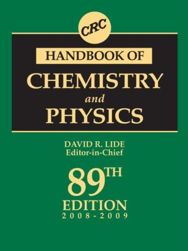 CRC Handbook of Chemistry and Physics, 89th Edition (Title)